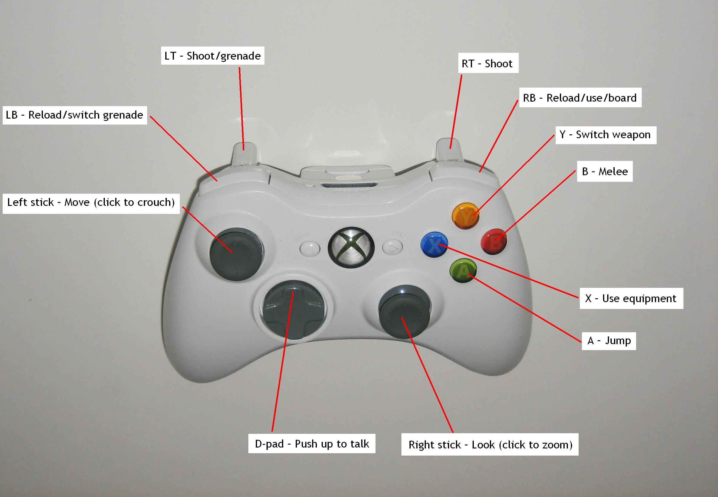 The controller layout of Halo 3 to replace a fair use image.